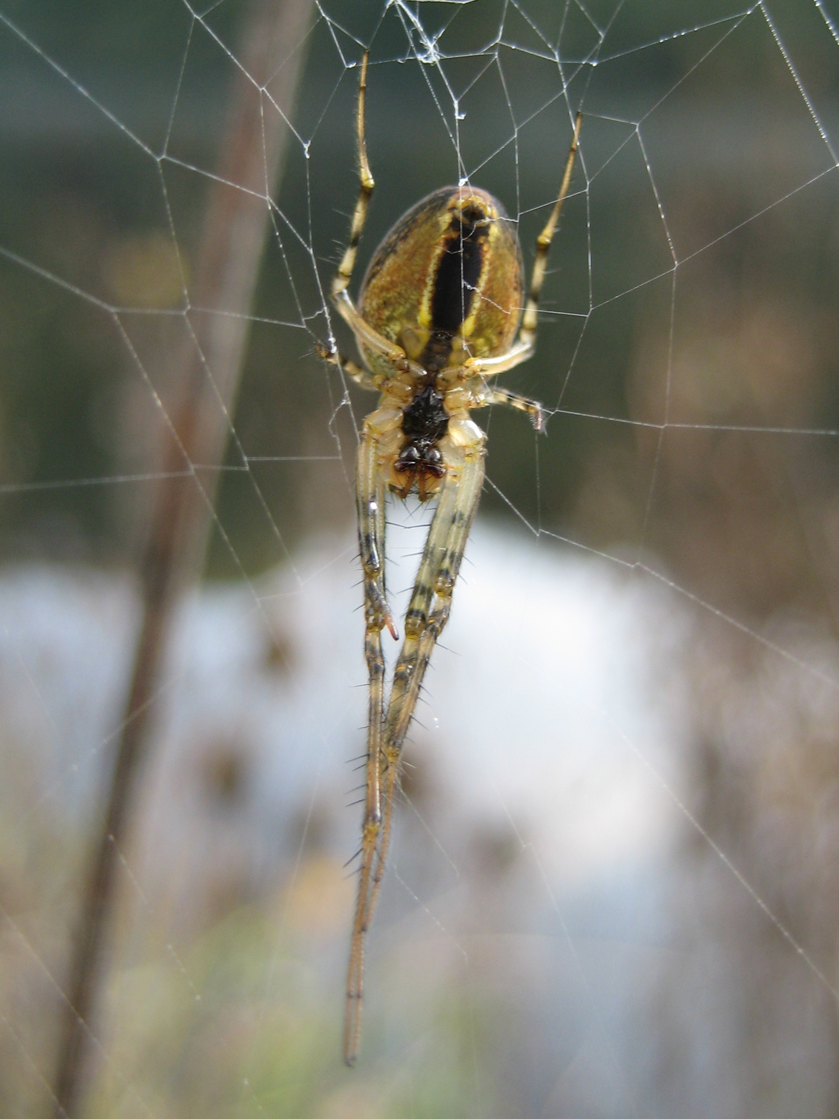 Metellina segmentata